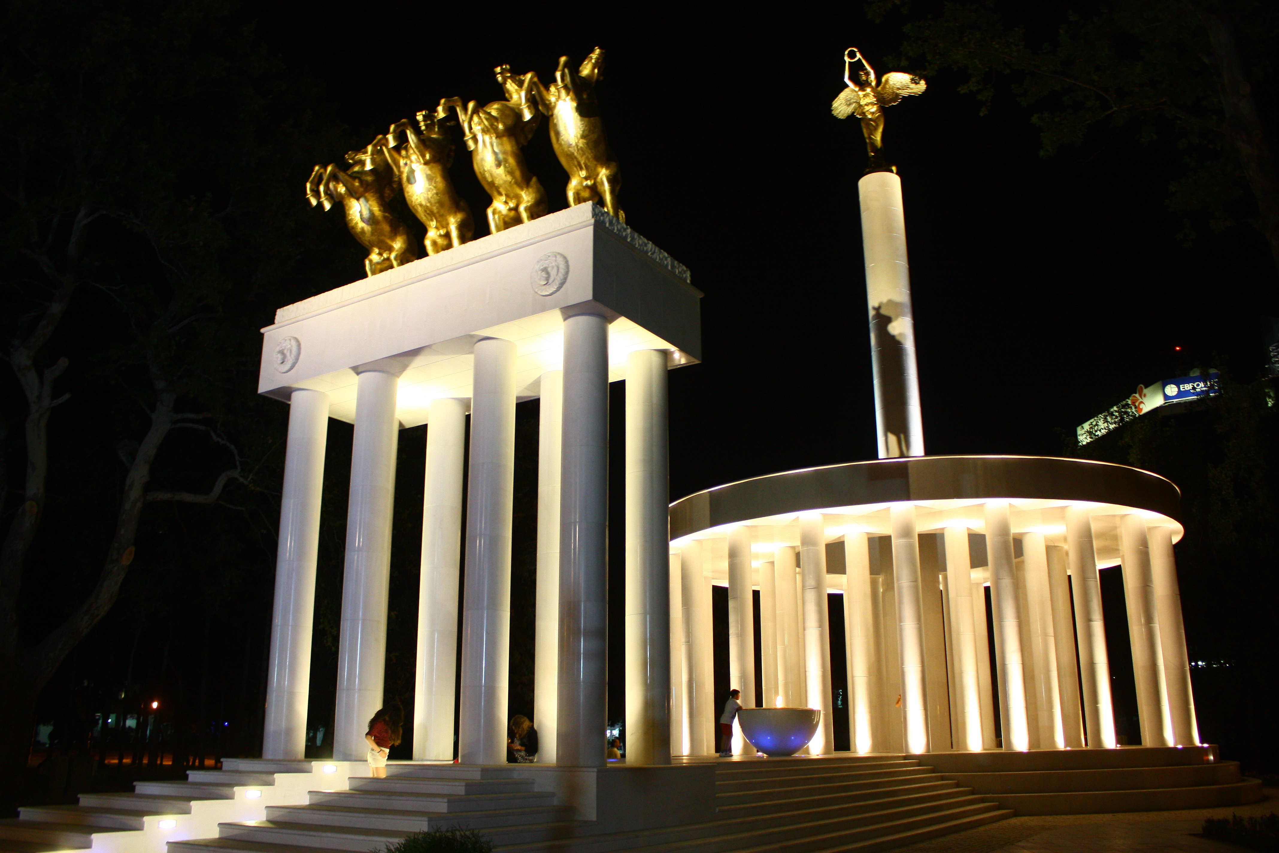 Monument to Fallen heroes for Macedonia